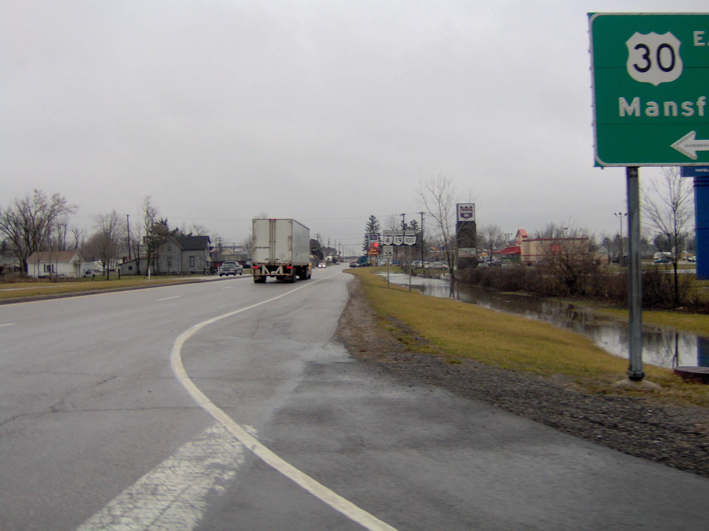 Junction of U.S. Route 30 with State Routes 4, 19, and 100 near Bucyrus in Crawford County, Ohio.